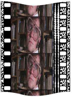 Simulated 35mm film with soundtracks - The outermost strips (on either side) contain the SDDS soundtrack as an image of a digital signal (on actual film the dots which make up the digital signal are much finer). In from them are the perforations used to drive the film through the projector, along with the Dolby Digital soundtrack between them. On the right side (when looking towards the screen) only the two tracks of analog soundtrack can be seen, often encoded using Dolby Surround to simulate a third track. Just in from the analog track is the timecode used to synchronize a DTS soundtrack. Finally, in the center, is the image, in this case compressed horizontally by Cinemascope. Note: the image was mirrored compared to the original picture. - User:Lostchicken